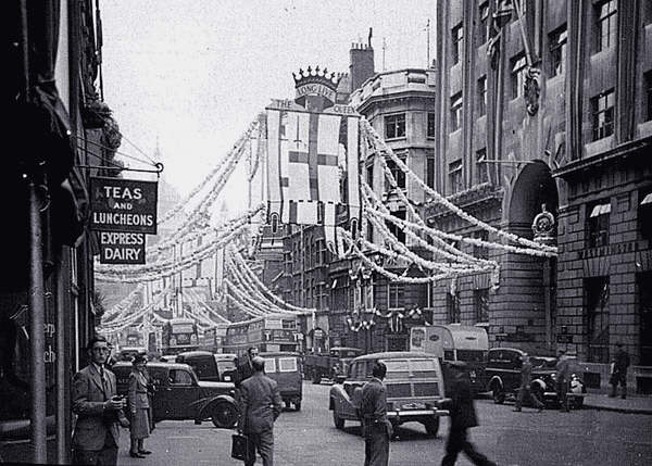 Fleet Street during 1953 Coronation Picture showing some decorations for the Coronation in 1953